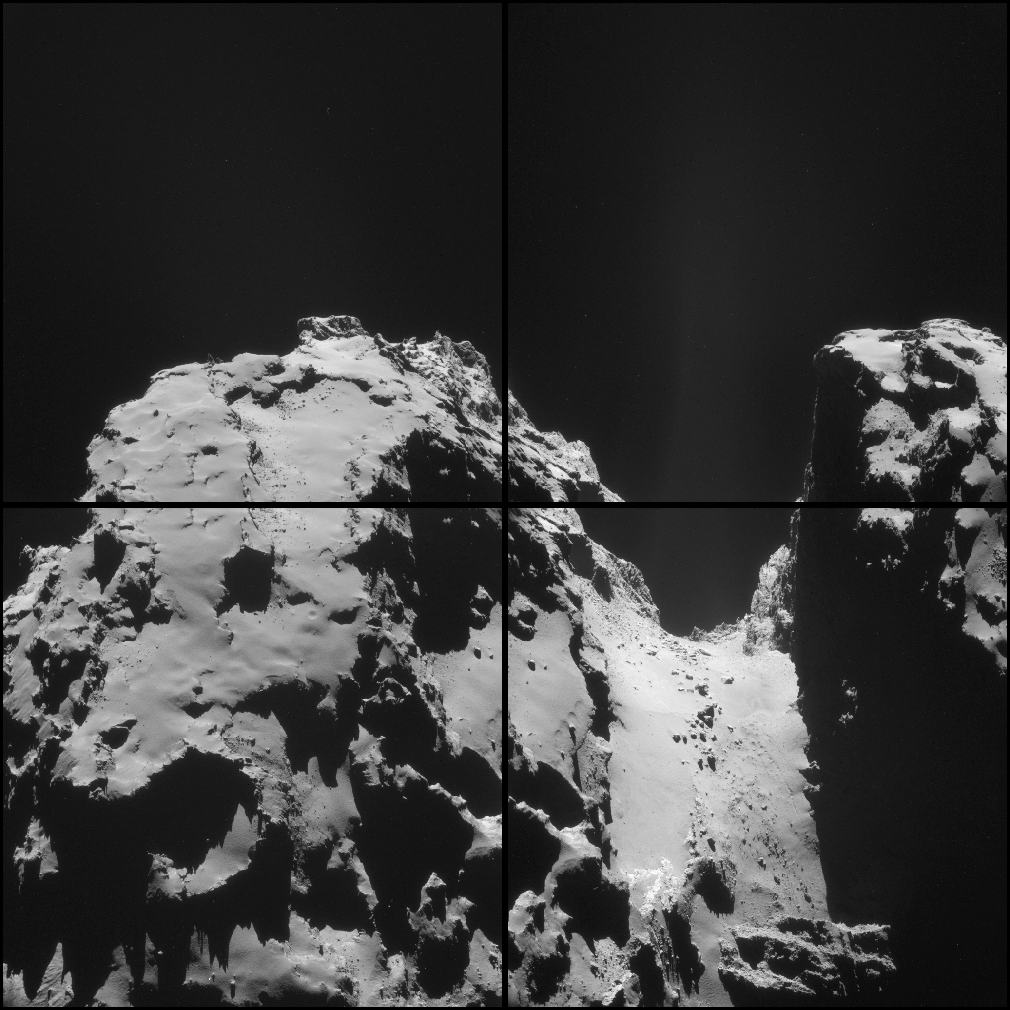 Montage of four images taken by Rosetta's navigation camera (NAVCAM) on 2 October 2014 at 19 km from the centre of comet 67P/Churyumov–Gerasimenko. The image provides a stunning view onto the 'neck' region of the comet. The four images were taken in sequence as a 2×2 raster over a period of about twenty minutes, meaning that there is some motion of the spacecraft and rotation of the comet between the images. The images have been cleaned to remove the more obvious bad 'pixel pairs' and cosmic ray artefacts, intensities have been scaled.